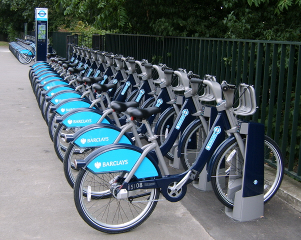 Boris Bikes docked at Hyde Park, London, the day before the official launch.